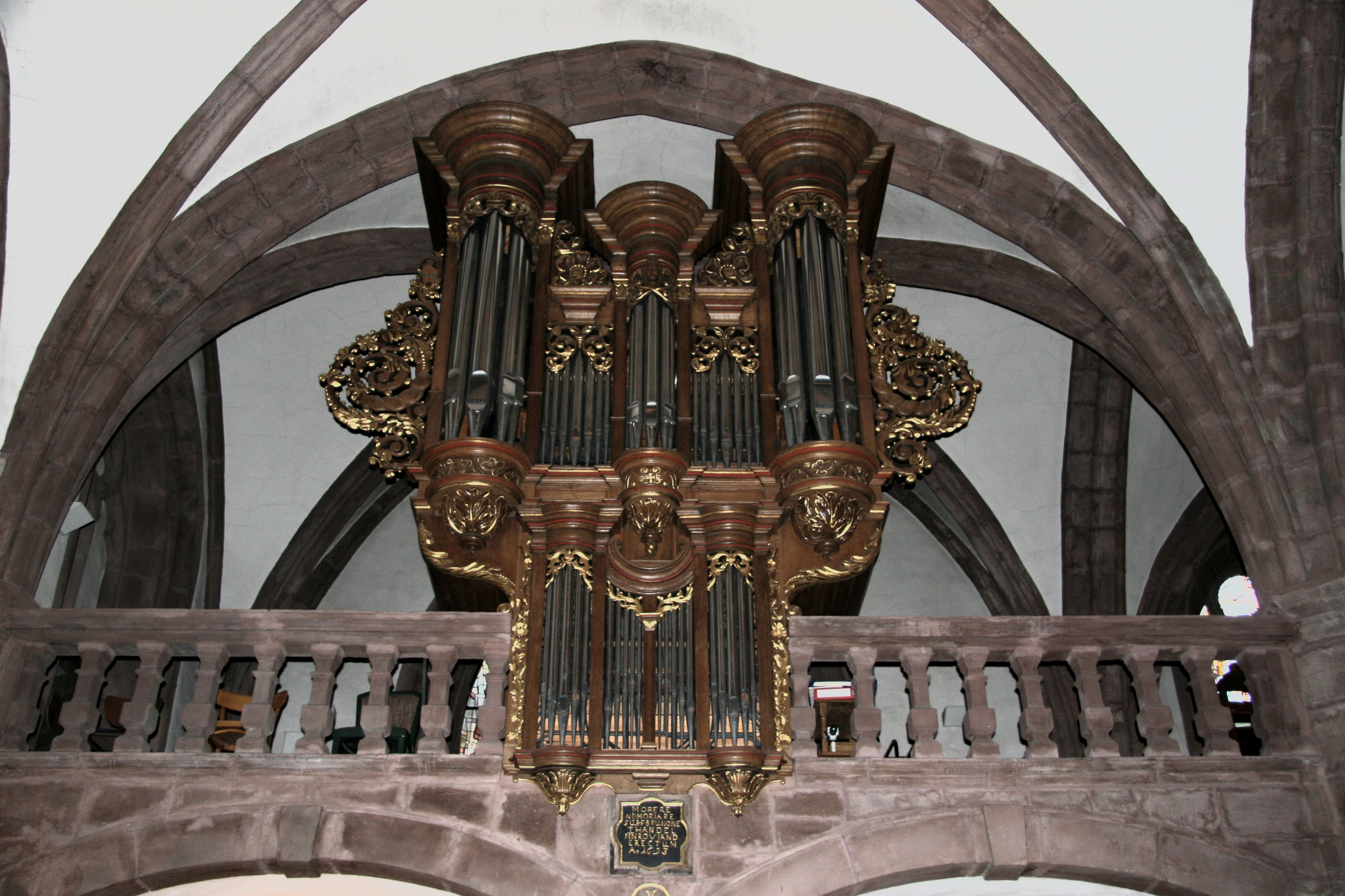 The 1693 Organ of the trinitarian church in Vianden, Luxembourg.